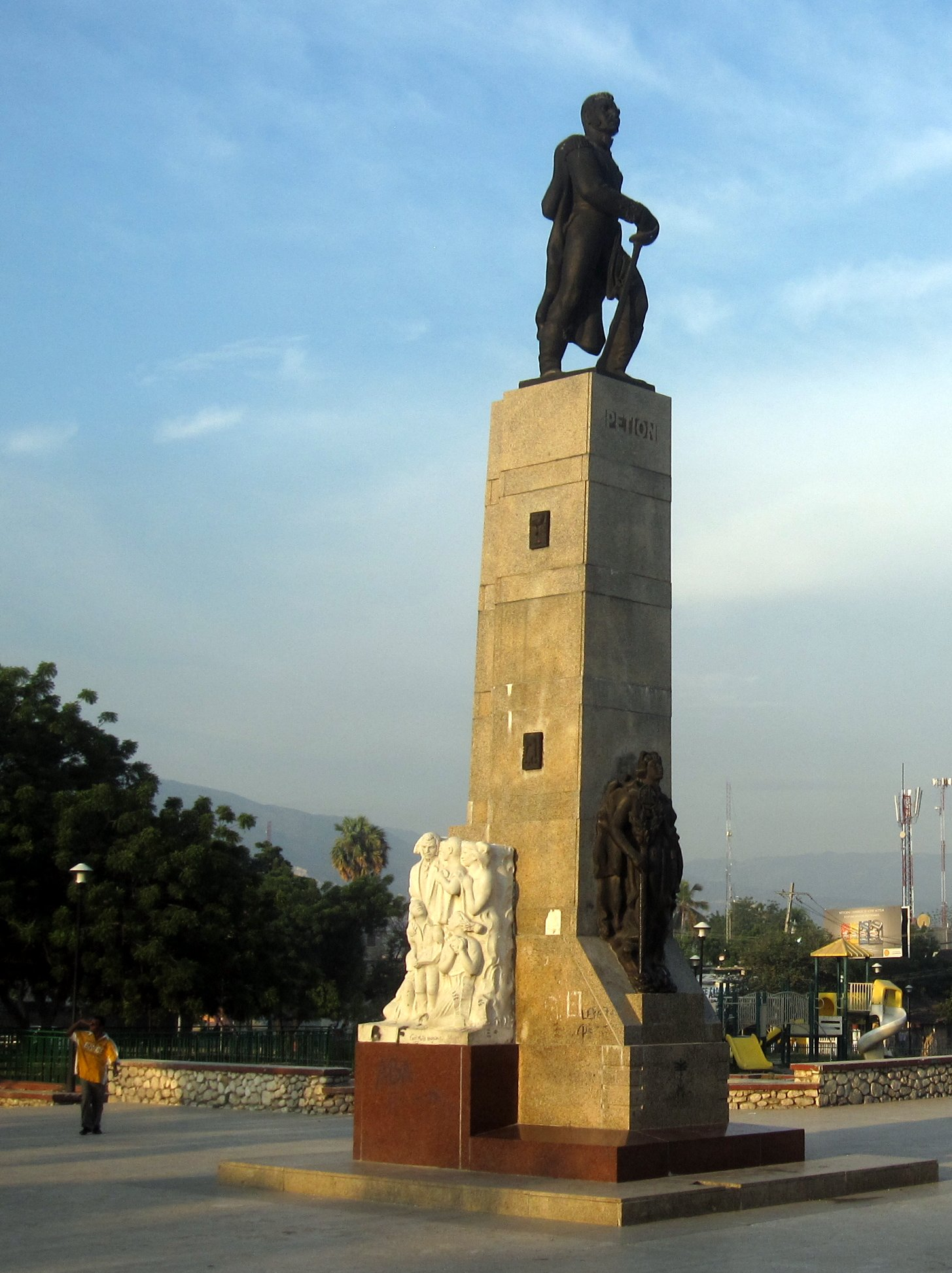 Monument to a founding father of independent Haiti, Alexandre Pétion